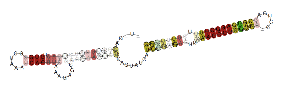 Predicted structure of the Enterobacteria_rnk-leader, obtained by RNAalifold.